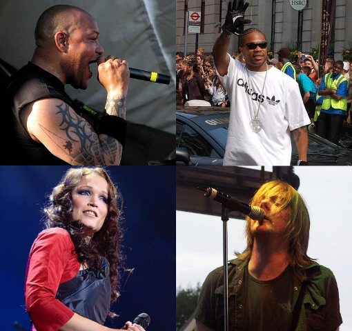 Tiled photo from Within Temptation's Hydra record guest vocalists. Clockwise from the top: Howard Jones, Xzibit, Dave Pirner and Tarja Turunen